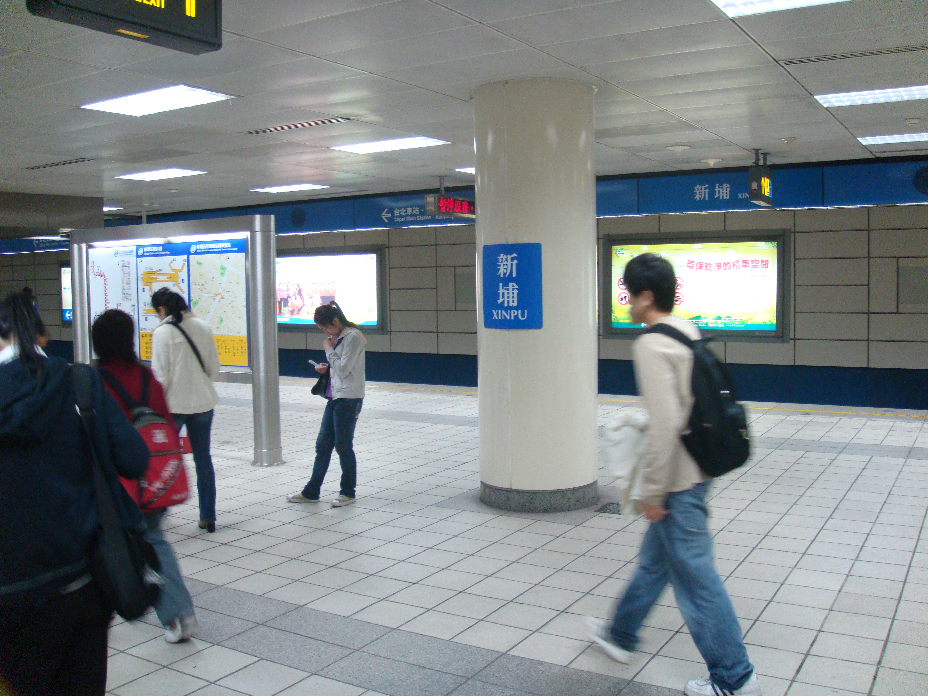 Platform 1, Xinpu Station, Banqiao Line, Taipei Metro.